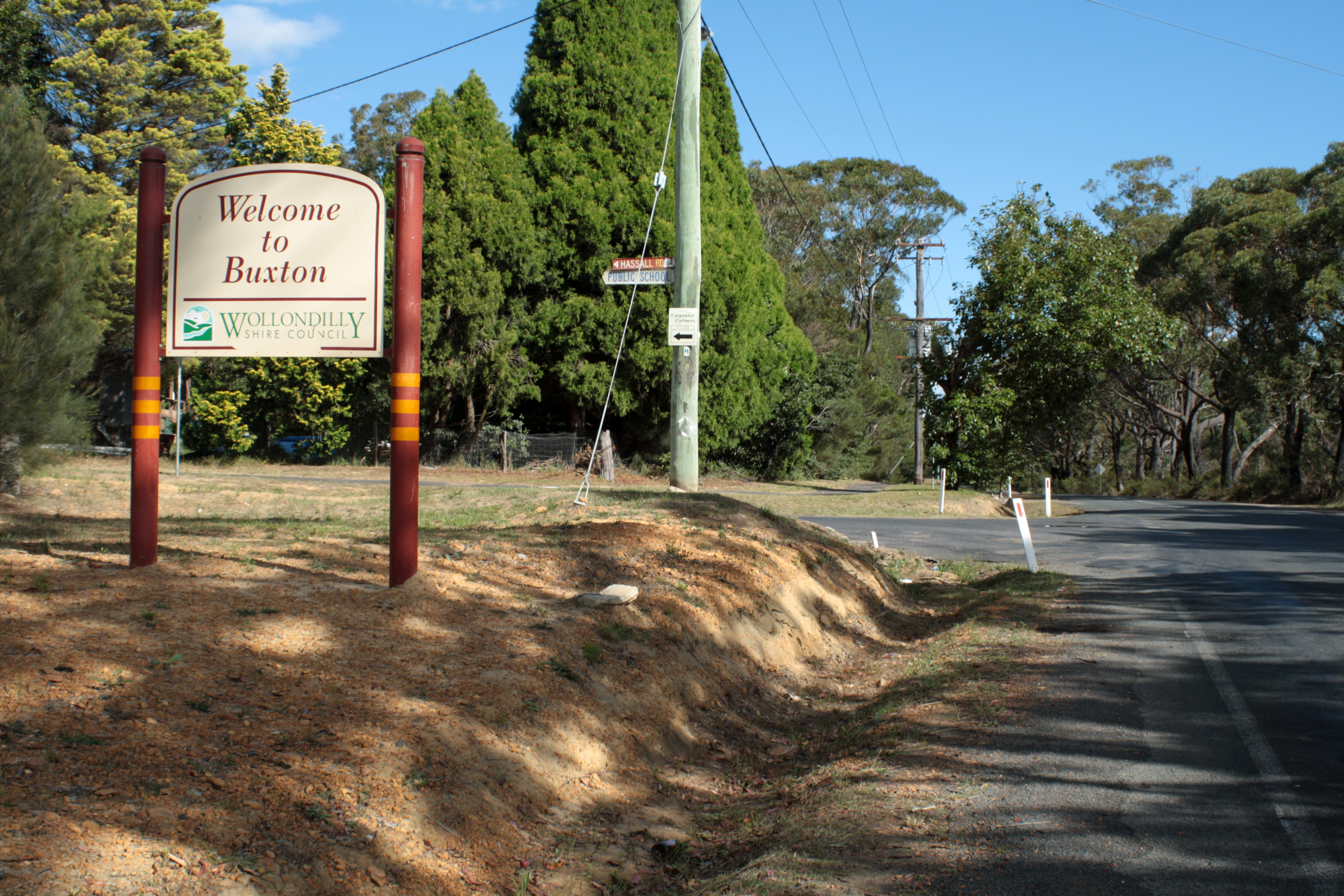 Northern entrance to Buxton, on East Parade.